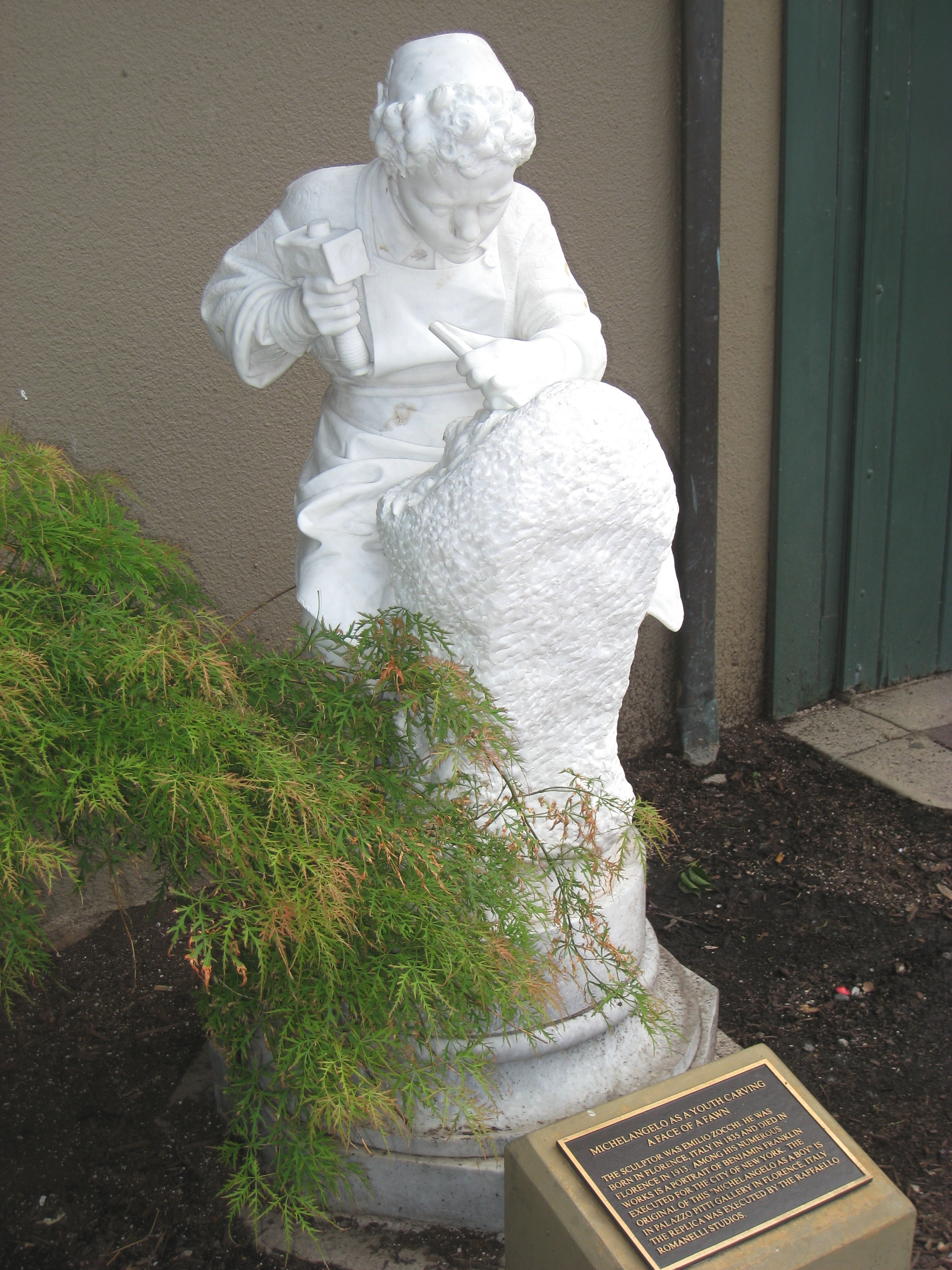 Replica of "Michelangelo as a Youth Carving the Face of a Faun", by Cesare Zocchi. Replica created by Raffaello Romanelli Studios, and located in Country Club Plaza, Kansas City, Missouri, USA.